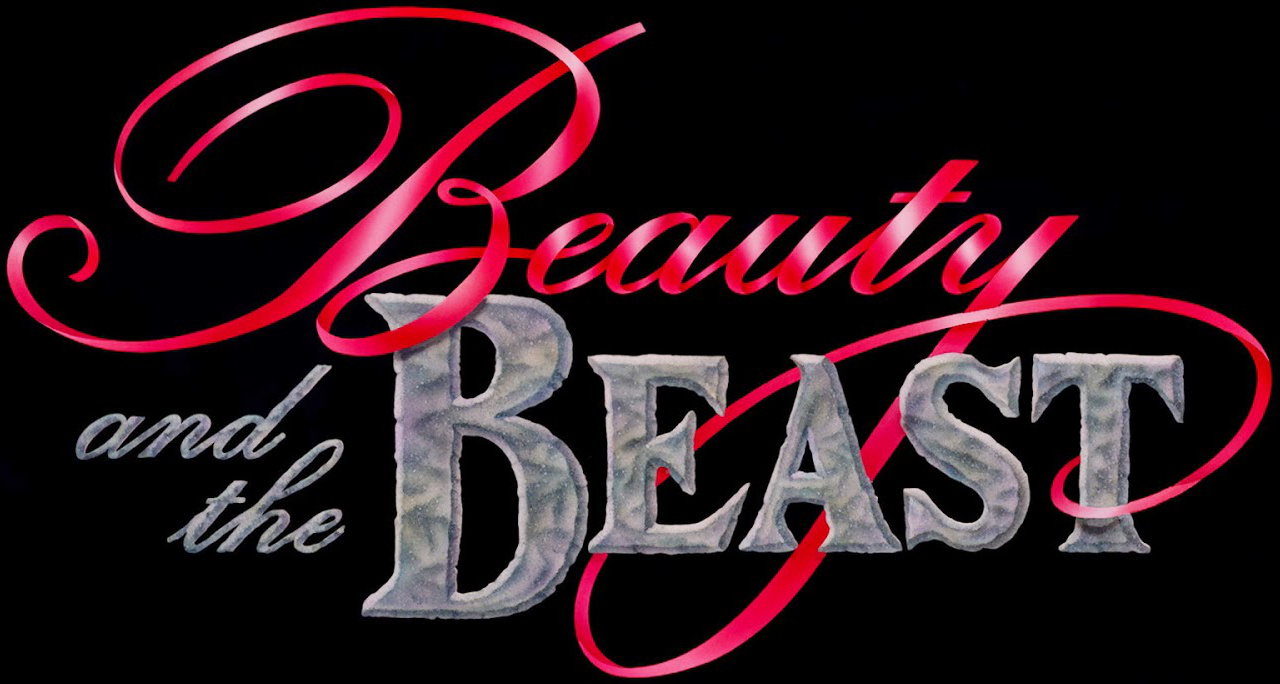 Official and unmodified logo for Beauty and the Beast (1991 film)